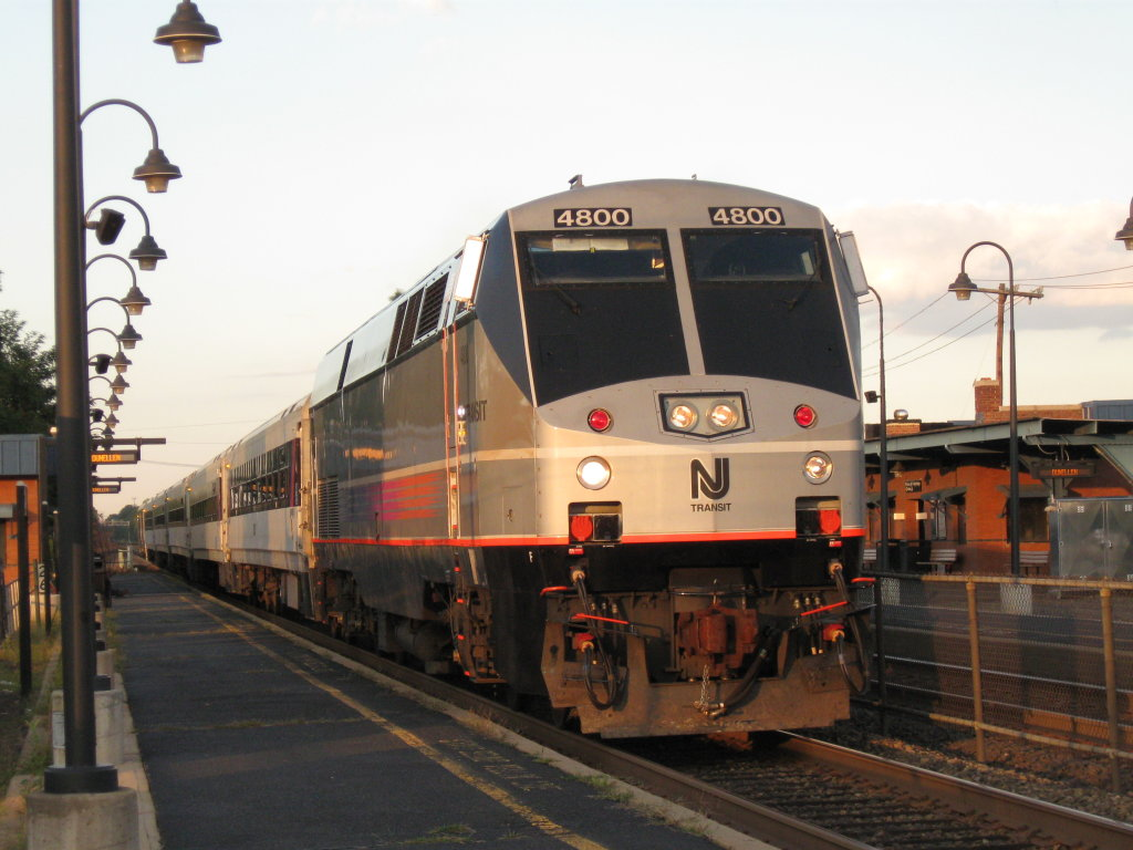 New Jersey Transit GE P40DC #4800 (ex-Amtrak #812) pulls Train 5439 into the Dunellen Railroad Station, en route to Raritan on the Raritan Valley Line.